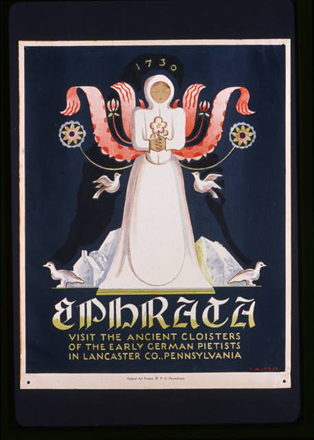 WPA poster-Ephrata : Visit the ancient cloisters of the early German pietists in Lancaster Co., Pennsylvania